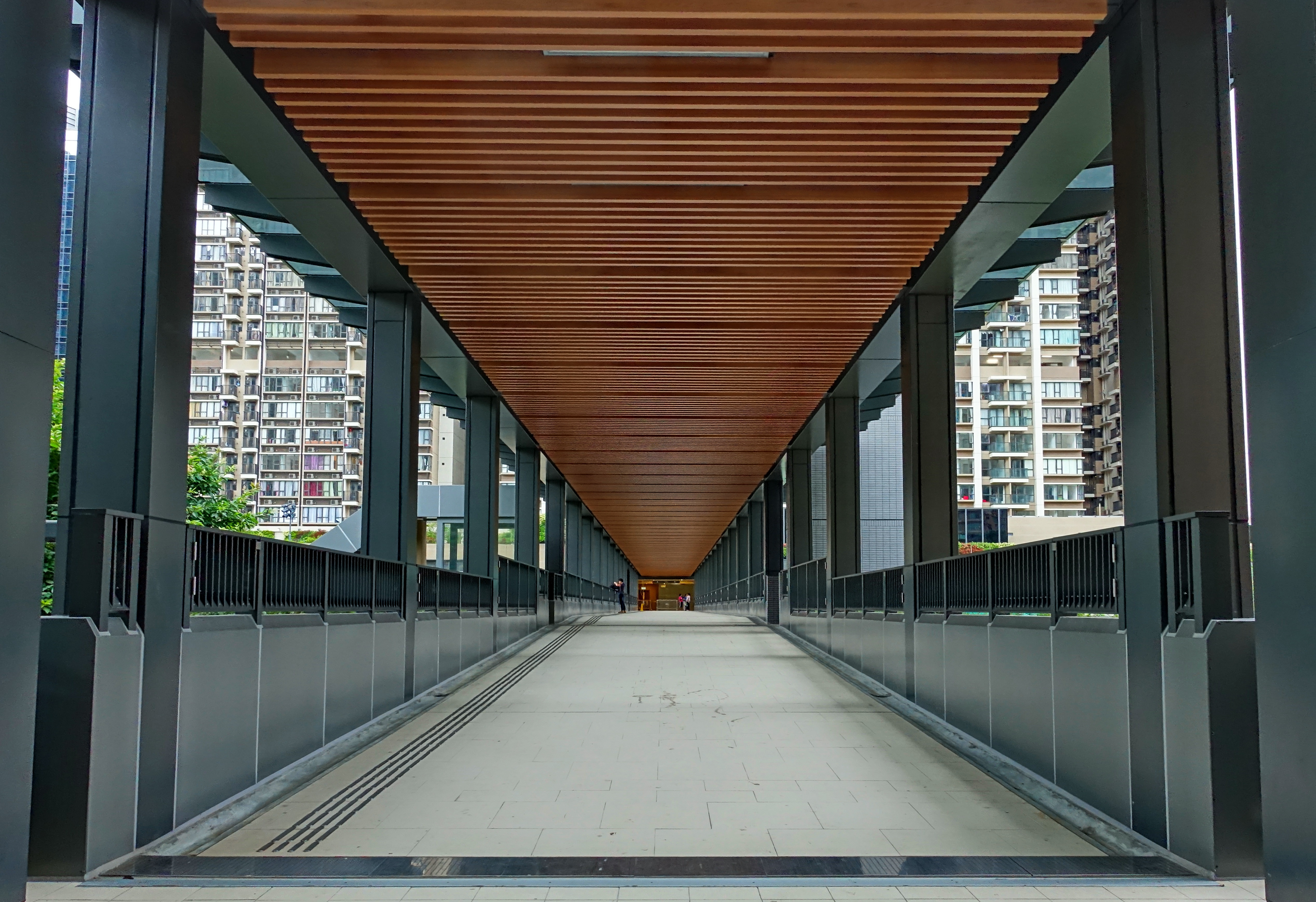 Footbridge connecting Caribbean Coast and Visionary, Tung Chung, Hong Kong.